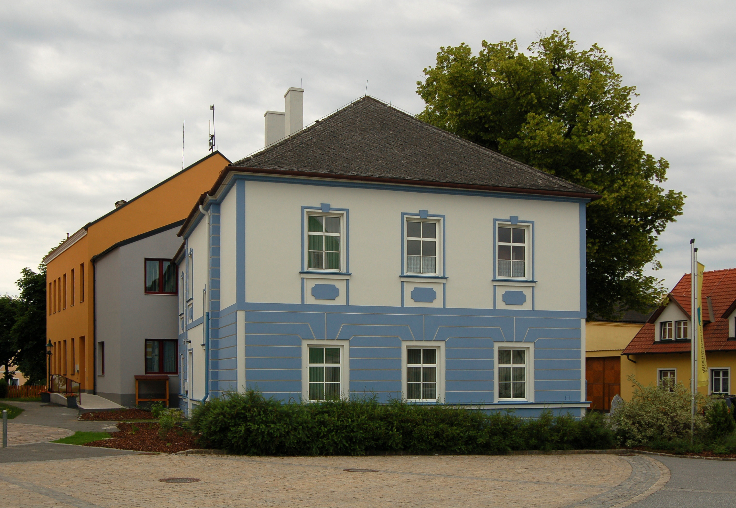 Municipial office in Neupölla, municipality of Pölla, Lower Austria.